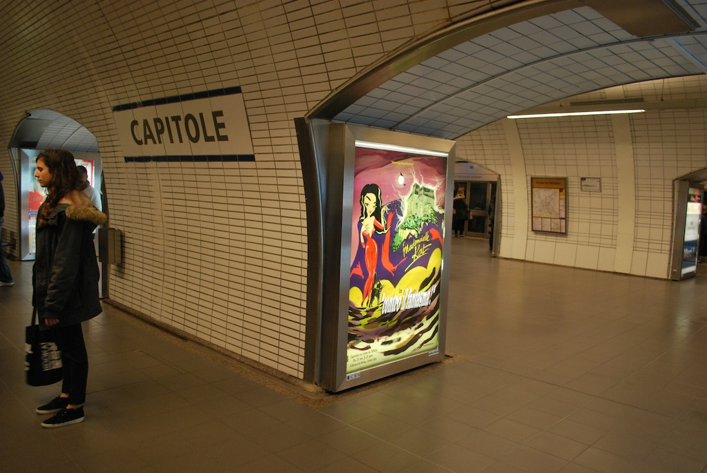 Mademoiselle Kat © 2014, Toulouse underground.